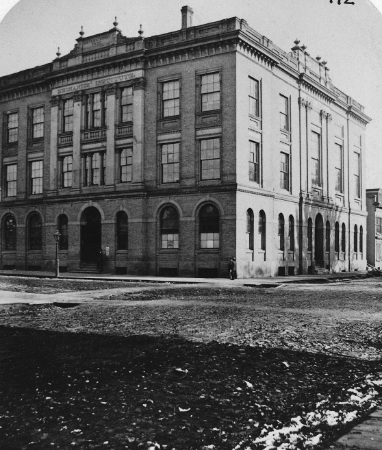 Mechanics' Institute (Toronto, Canada). The York Mechanics' Institute was established in 1830. The architectural firm of Cumberland & Storm planned and supervised construction of a large, handsome building on the corner of Church and Adelaide Streets between 1854 and 1861. The reference library and two reading rooms were located on the main floor and decorated with oak. The music hall was located on the second floor and was reached by an entrance from Adelaide Street. When the institute became a free public library in 1883, this hall became the main reading room and a small addition was made to the back of the building to accommodate more volumes in the new stack room. This building served as Toronto's central public library until 1909 and continued as a downtown branch library until January 1927. The building was demolished in 1949.